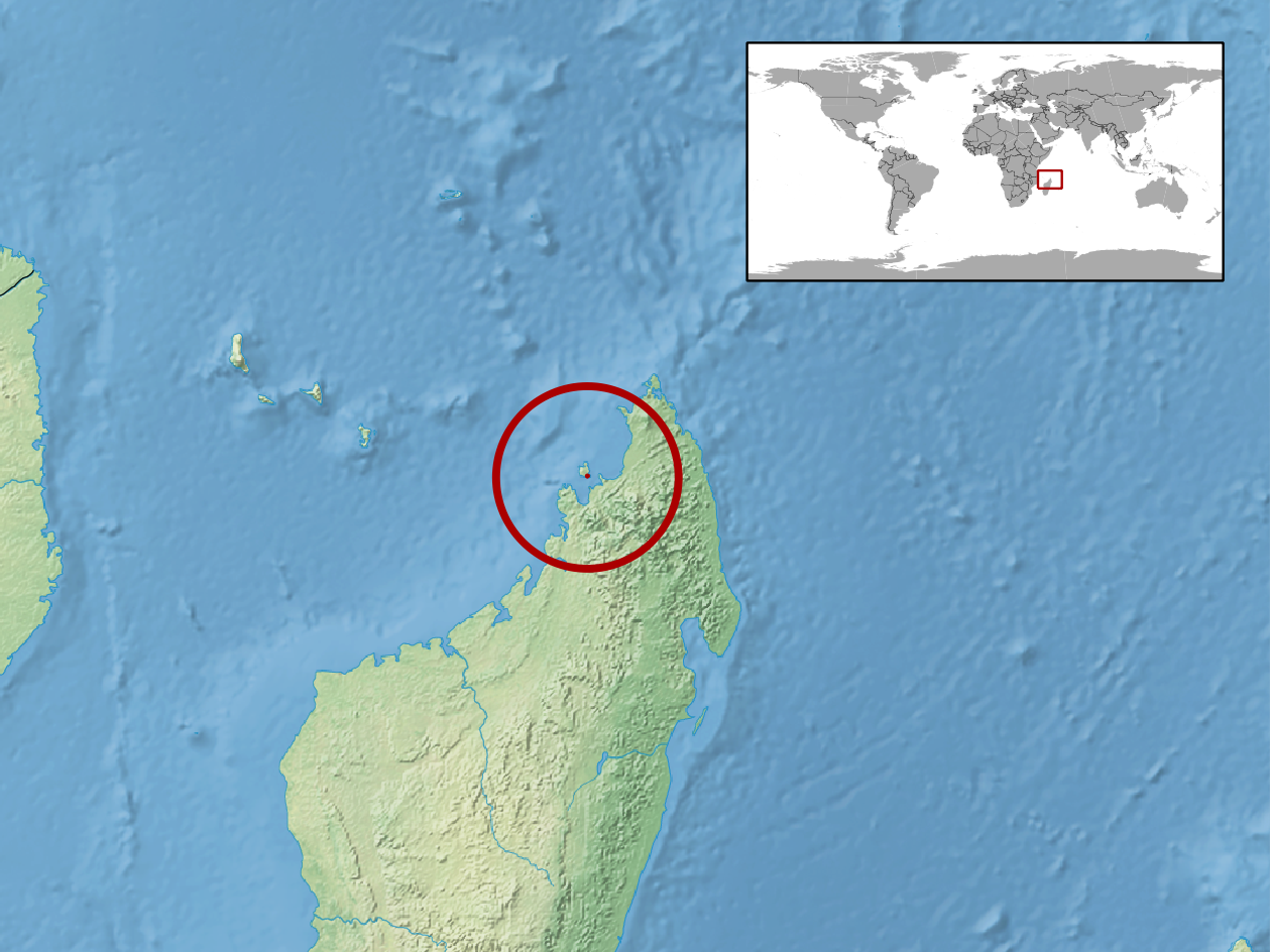 geographic distribution of Pseudoacontias unicolor